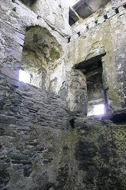 Granuaile's castle interior More properly a fortified house, this was on three storeys. A lower floor where the animals were kept, a middle floor which was the main accommodation and a top floor for defence. The floor timbers and roof have all gone but their fixing points can be seen. Granuaile (Grace O'Malley) was the prominent ruler of much of the west coast of Ireland in the 16th century, and had three such fortified houses along the coast.